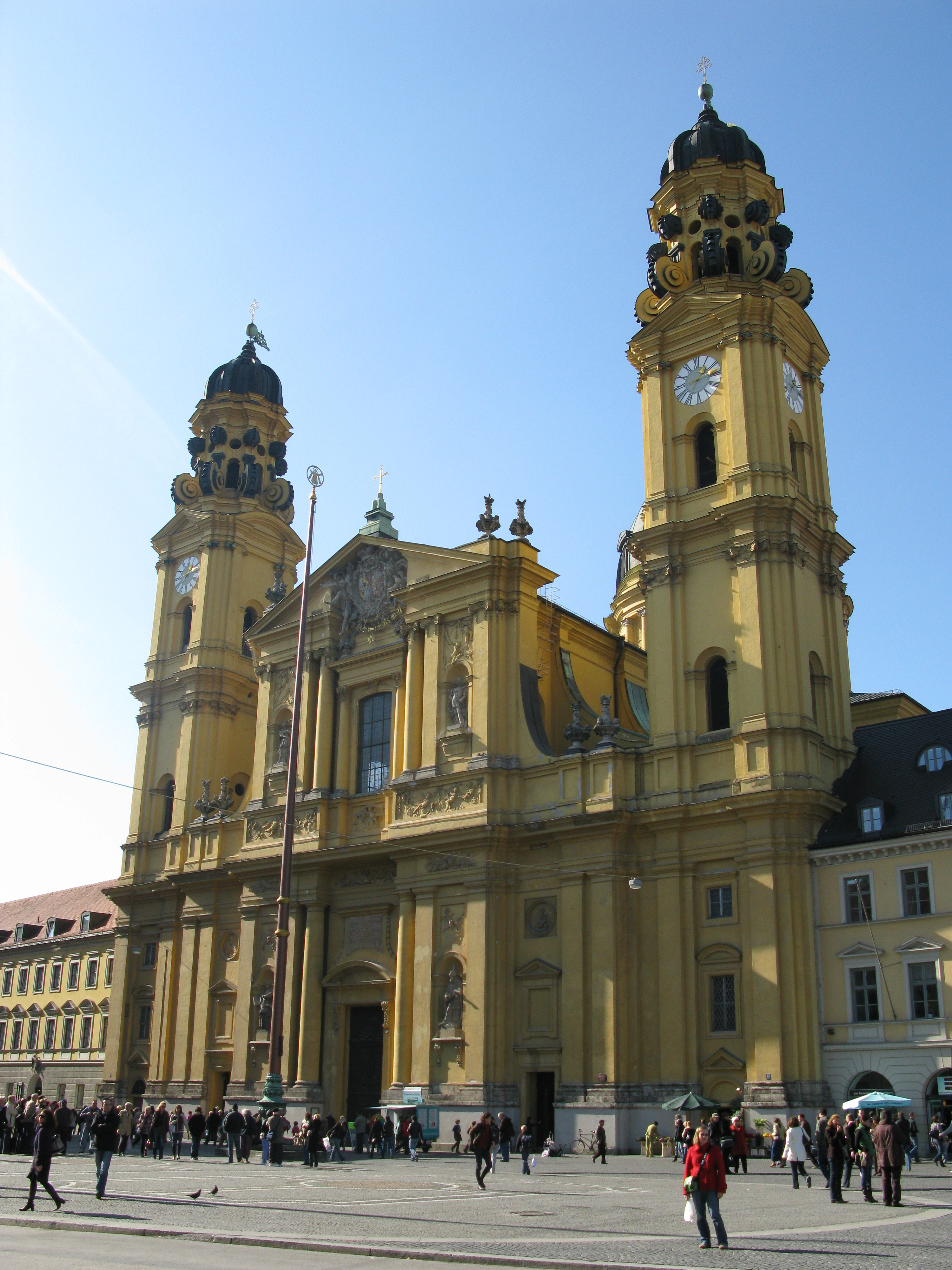 The Theatinerkirche at the Odeonsplatz in Munich.